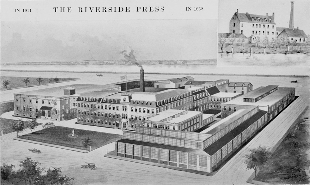 Illustration of the Riverside Press main facilities near the Charles River, Cambridge, MA. In the top right hand corner can be seen a picture of the original facilities in 1852.